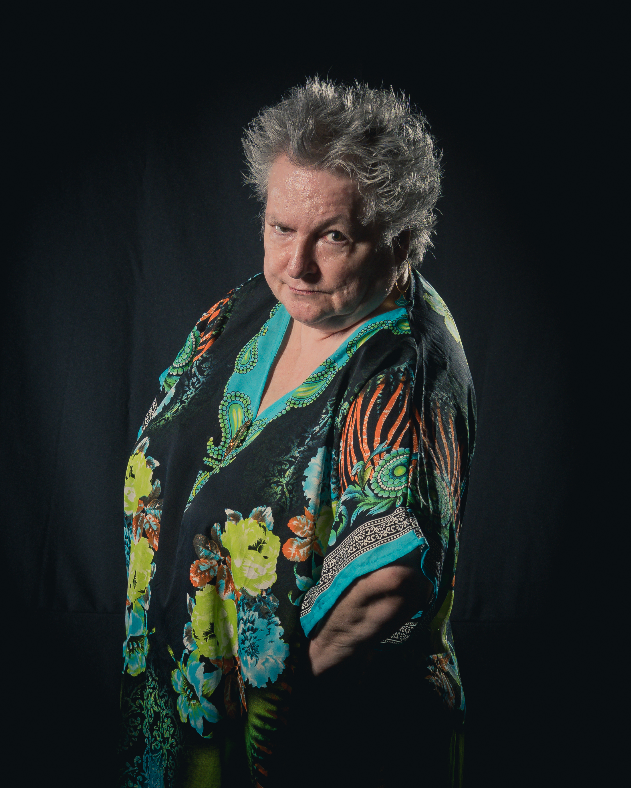 Portrait photoshoot at Worldcon 75, Helsinki, before the Hugo Awards: Pat Cadigan.